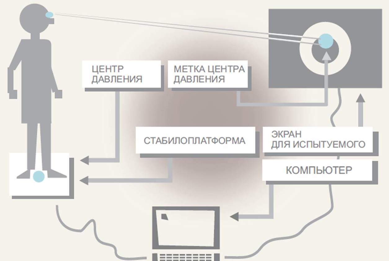 Biofeedback by support reaction (by stabilometric force platform, visual feedback)